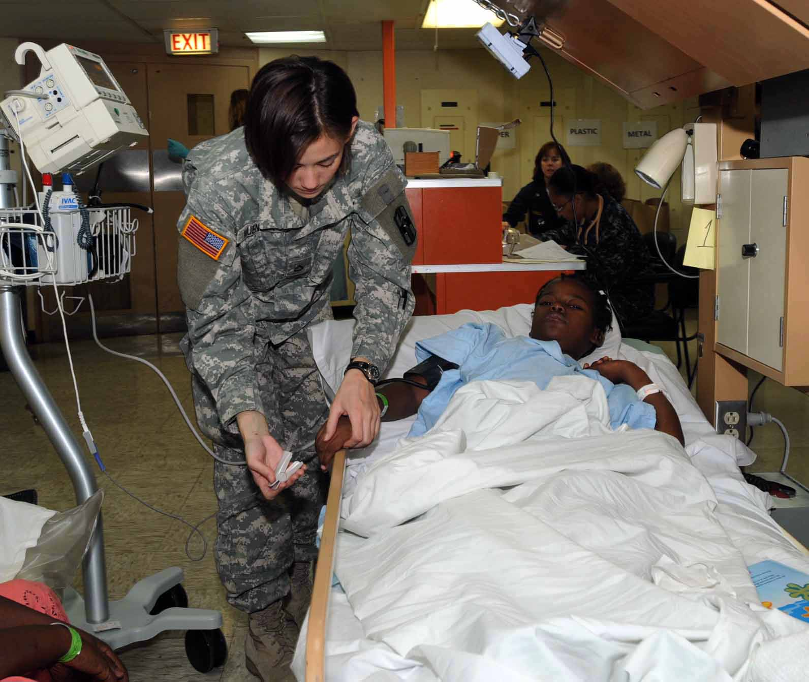 PORT-AU-PRINCE (April 14, 2009) Pvt. 1st Class Marlise Muenzer, assigned to 807th Medical Command (Deployment Support), checks the vital signs of a Haitian girl after surgery aboard the Military Sealift Command hospital ship USNS Comfort (T-AH 20). Comfort is on a four-month humanitarian and civic assistance mission to Latin America and the Caribbean. (U.S. Army photo by Sgt. 1st Class Brian Scott/Released)